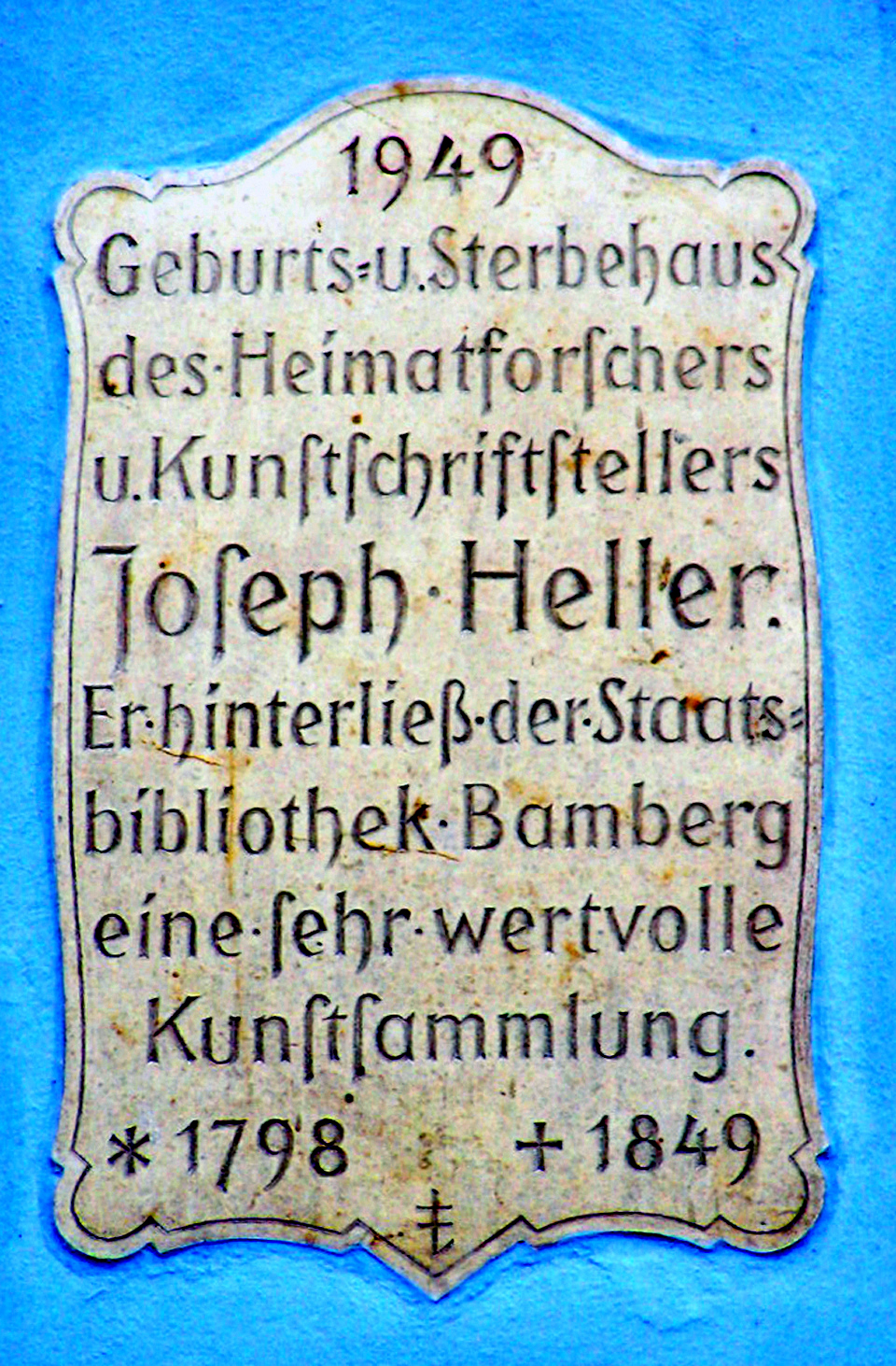 Plaque at house where Joseph Heller was born and where he died in Bamberg